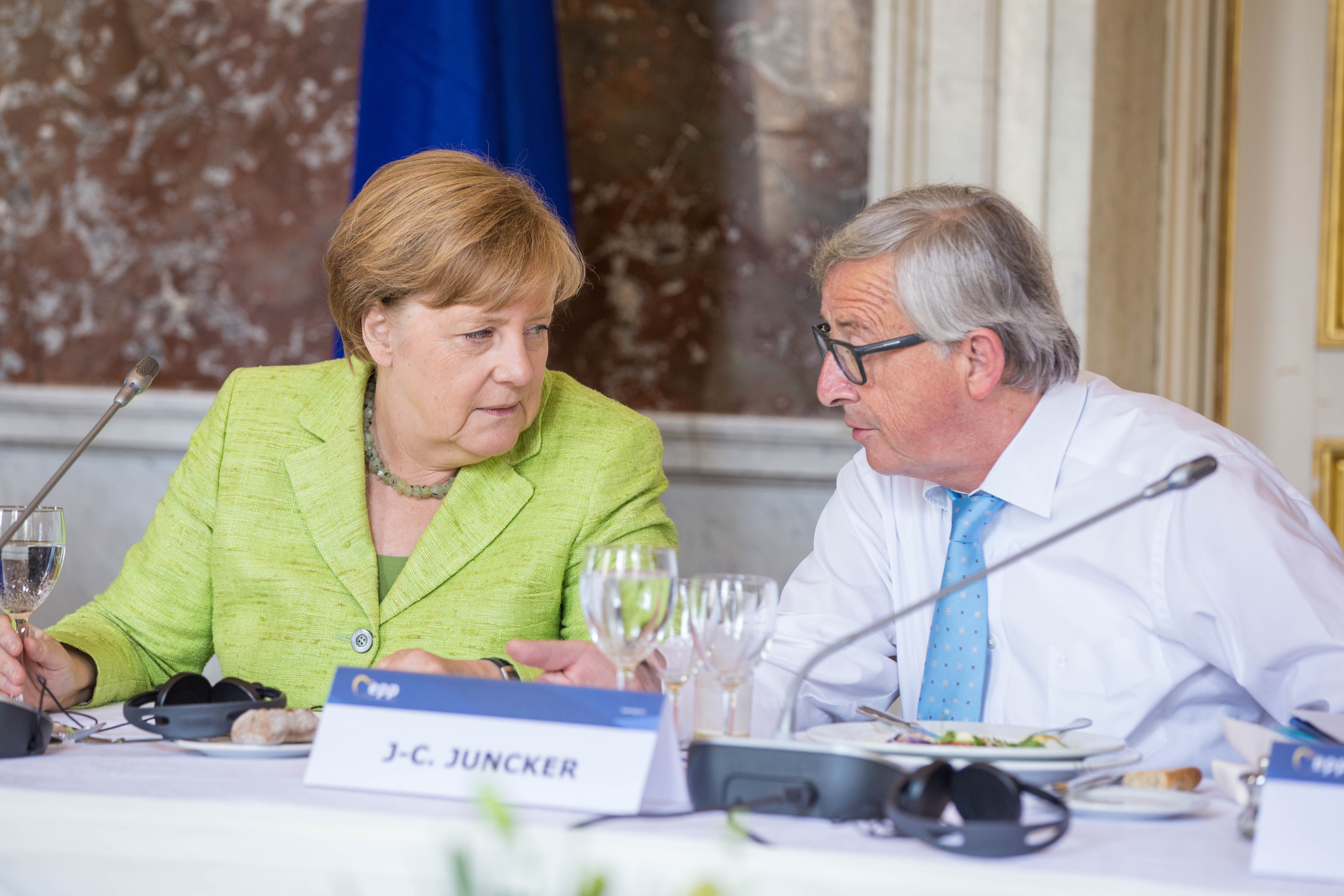 European People's Party Summit in Brussels, June 2017. Angela Merkel in conversation with Jean-Claude Juncker during dinner.